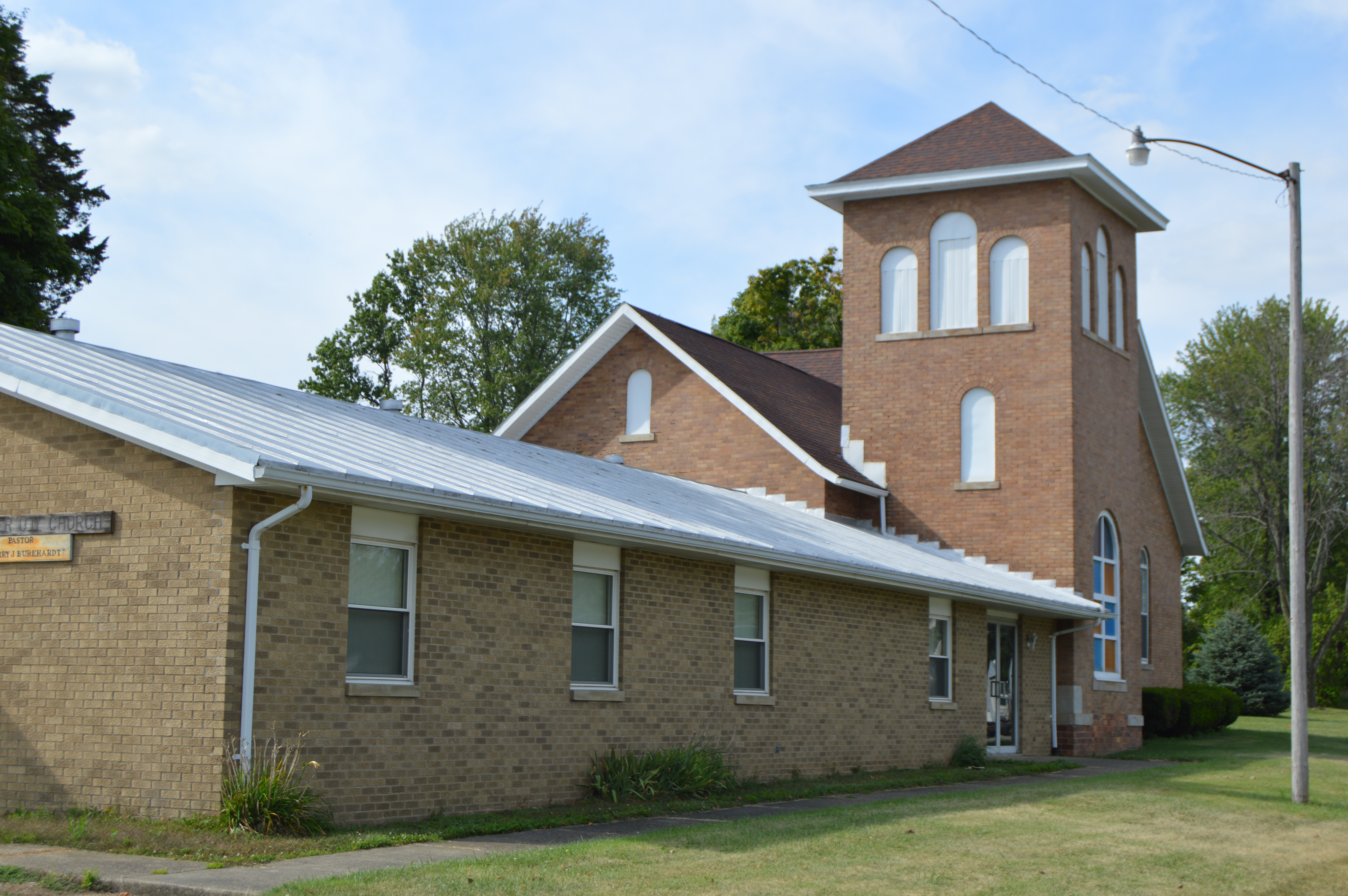 Front of the Ebenezer United Methodist Church, located at 8652 State Route 19 in North Bloomfield Township, Morrow County, Ohio, United States.